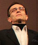 Tatiana Abramova and Andrey Kharitonov at Severodvinsk Drama Theatre, February 24, 2010